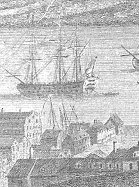 "The Town and Harbour of Halifax in Nova Scotia looking down George Street to the opposite shore called Dartmouth" 1759